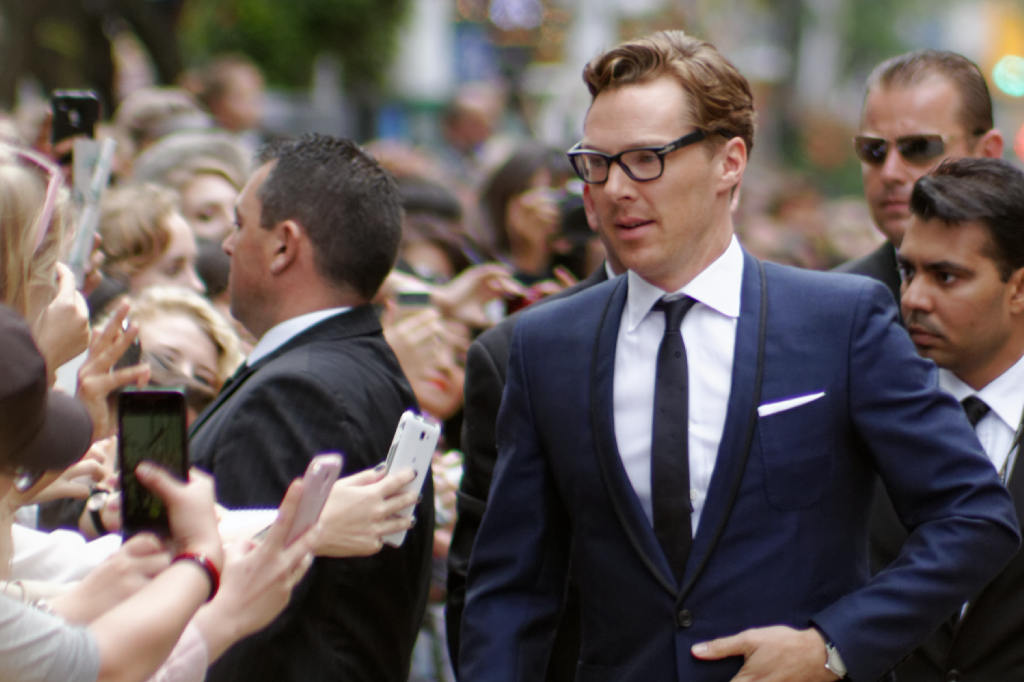 Benedict Cumberbatch with fans at the 2014 Toronto International Film Festival